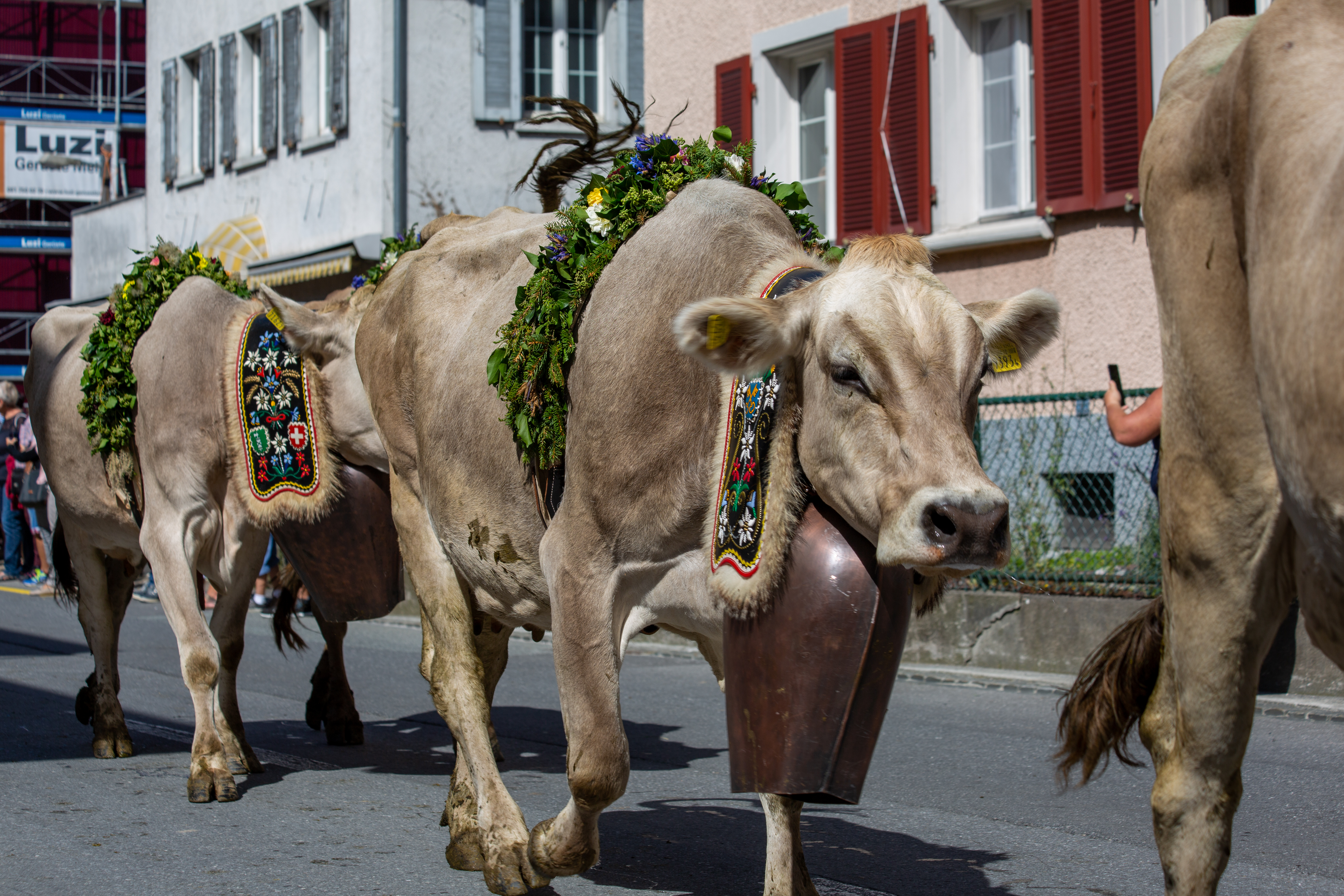 Albabfahrt in Mels, 2019 This photo has been taken in the country: Switzerland